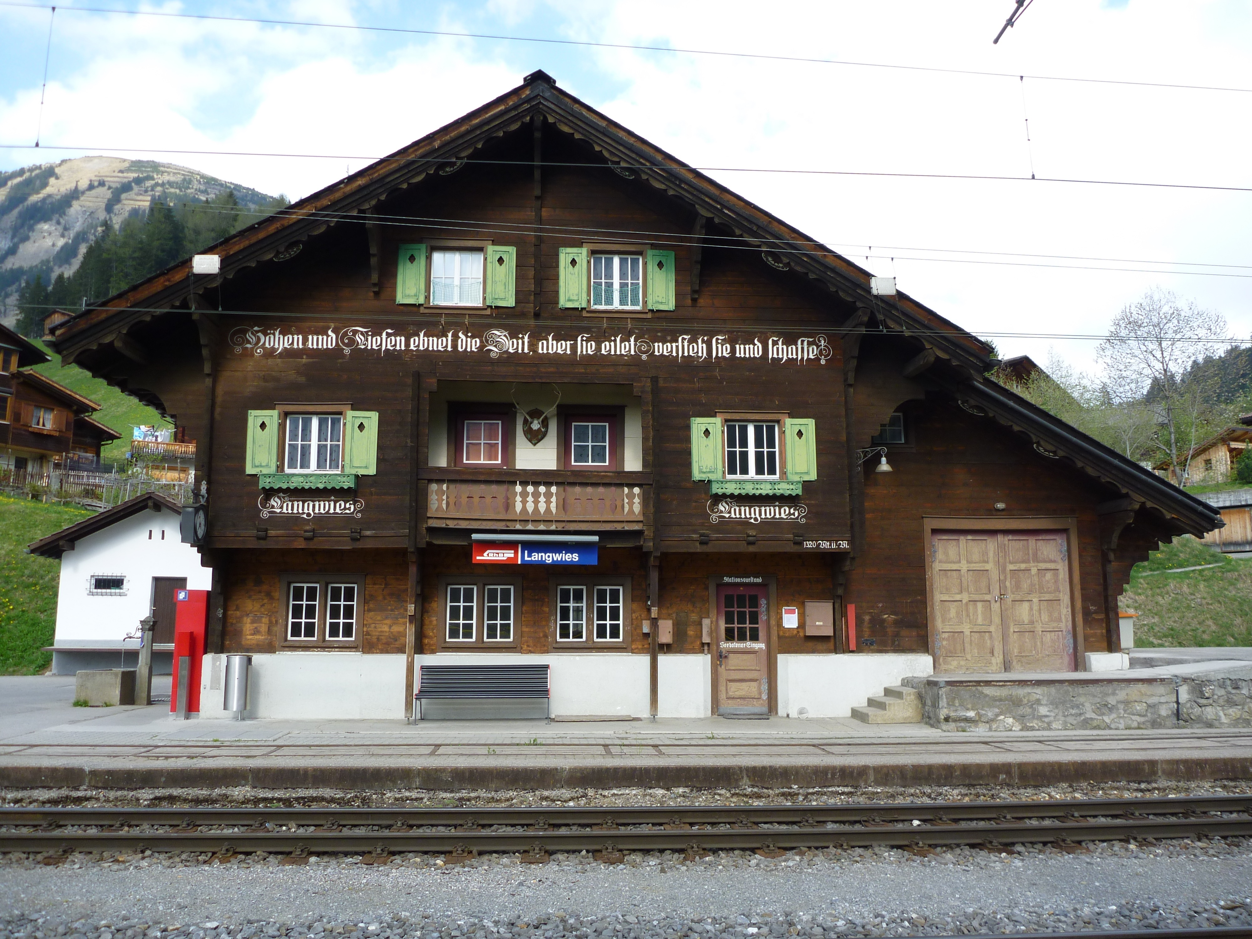 Langwies train station, Chur-Arosa railway